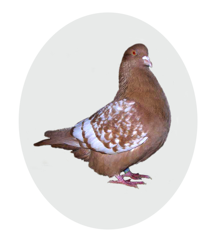 Polish Lynx Yellow Laced)